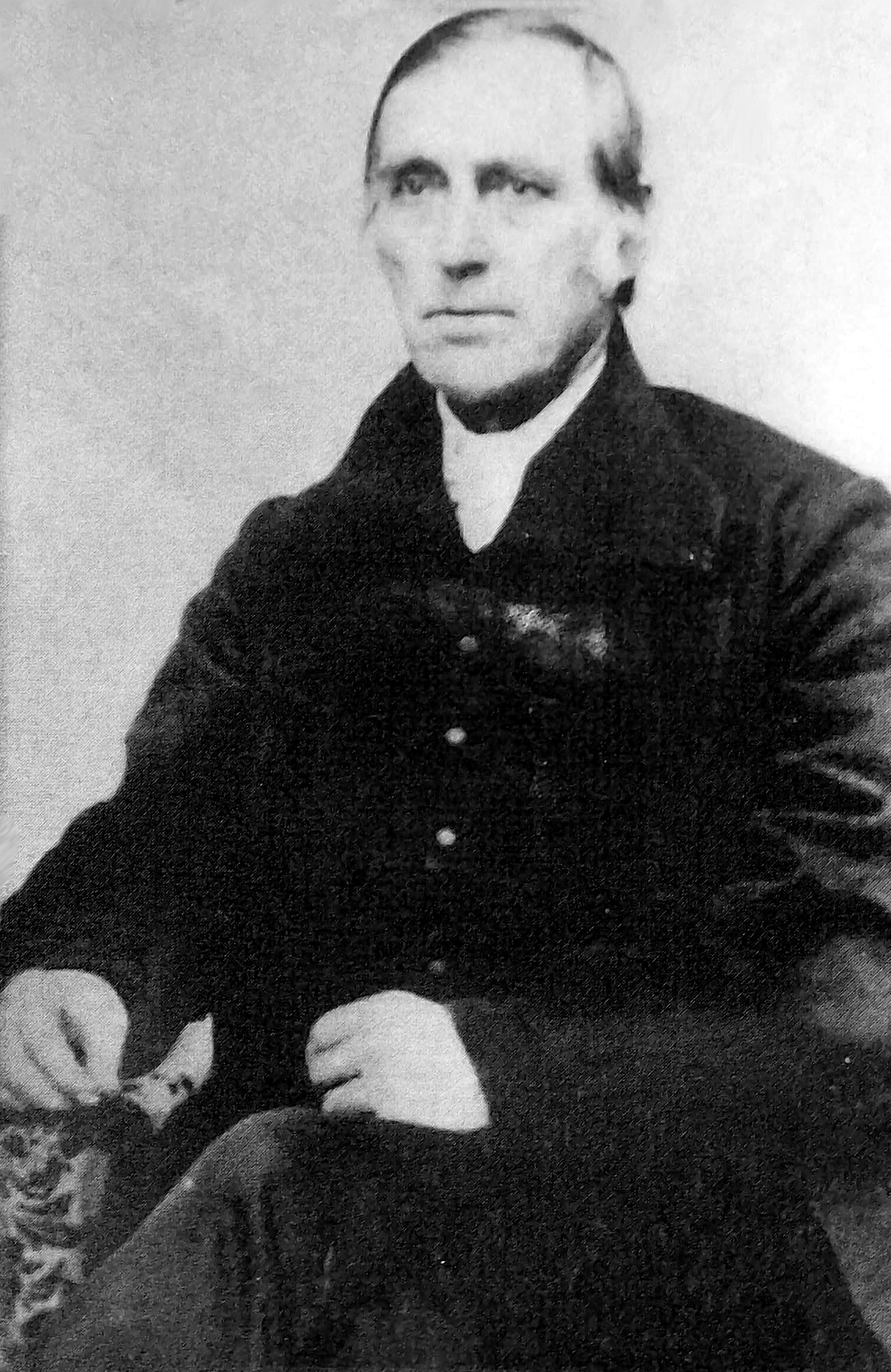 A photograph of Levi Coffin (1798-1877), Quaker, abolitionist leader, underground railroad.